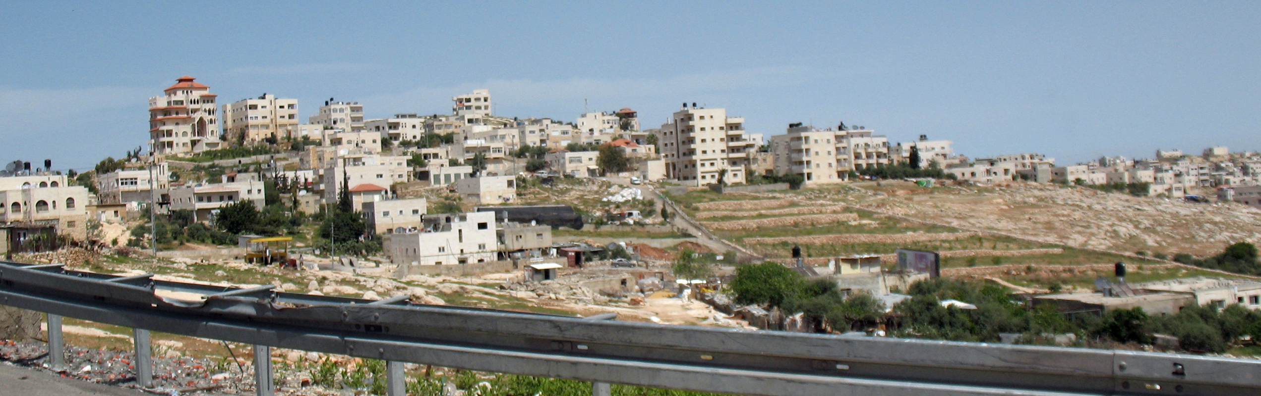 Hizme, a town near Jerusalem in the Palestinian Territories.